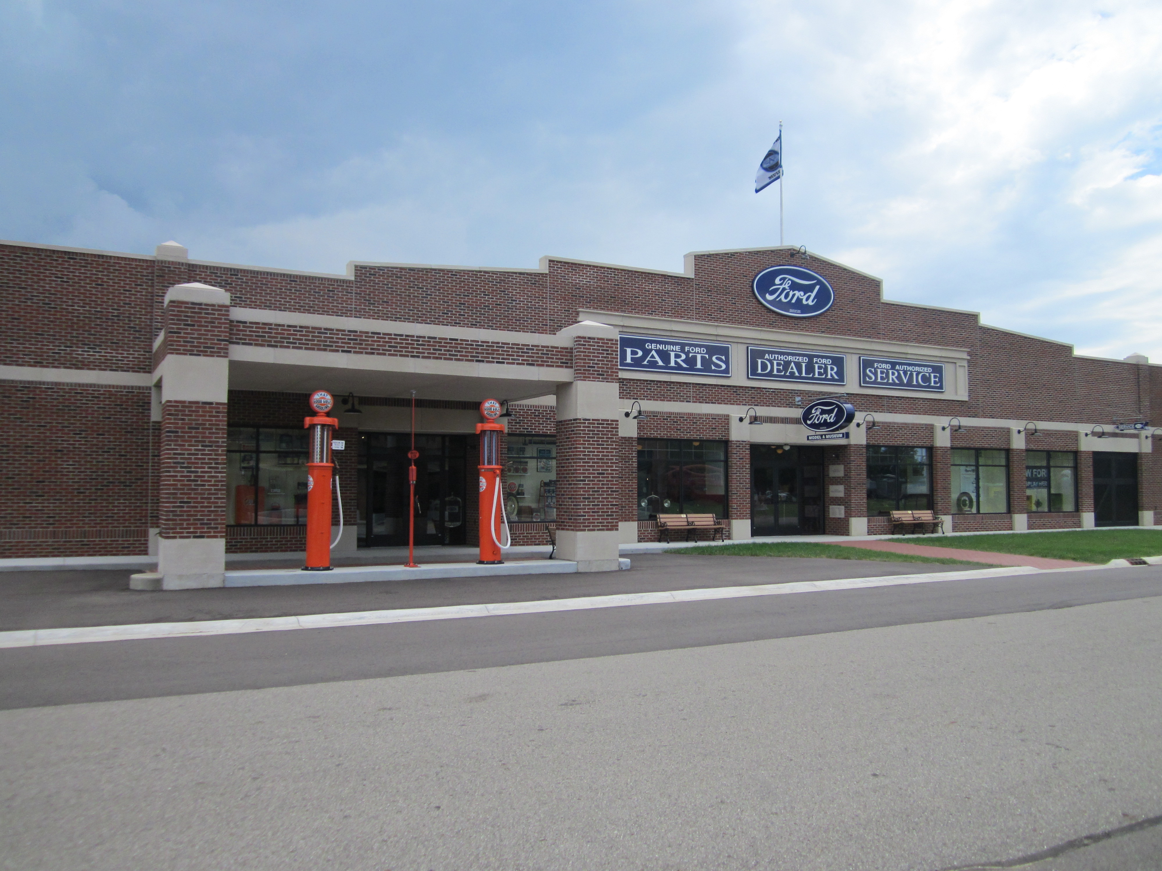 The Model A Ford Museum at the Gilmore Car Museum, Michigan, designed to look like a 1928-31 Ford Dealership.